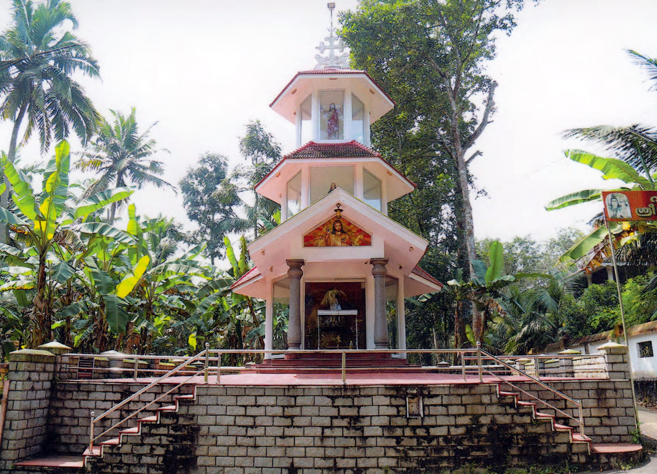 St. Sebastian's Shrine at Cherpunkal Palayam Road belonging to Ss. Peter and Paul Church, Kalloor, Cherpunkal.